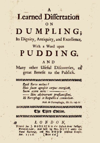 The front of Dumpling and Pudding, which includes the satire Namby Pamby. Later marks have been removed.